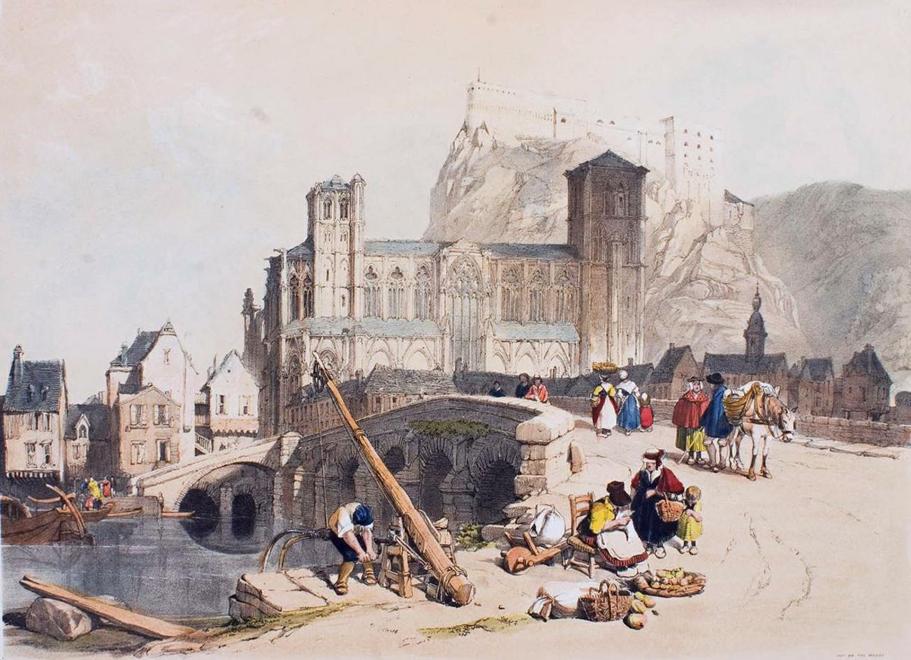 Bridge, cathedral and citadel in Huy on the Meuse